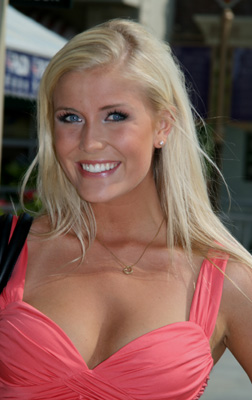 Miss Iceland 2007 Johanna Vala Jonsdottir. Photo taken in Miss World, Sanya 1/12/07.